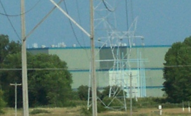 Looking east at the Point Beach Nuclear Generating Station near Kewaunee, Wisconsin, USA while traveling on Wisconsin Highway 42.